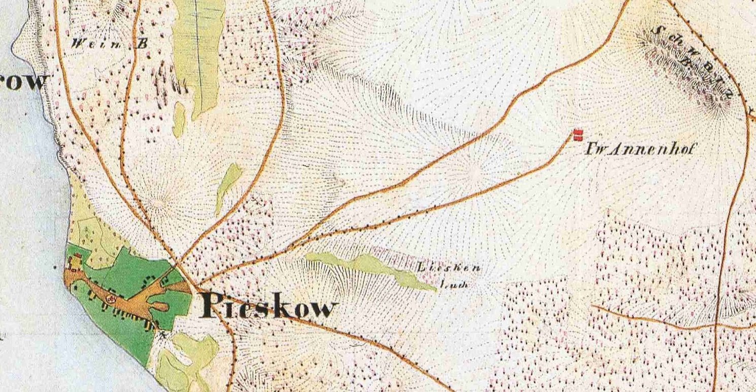 Folwark Annenhof, today a part of Bad Saarow in the District Oder-Spree, Brandenburg, Germany. Detail from the Urmesstischblatt (prototype planetable sheet at 1:25,000) Sheet 3750 Bad Saarow-Pieskow, drawn in 1844.